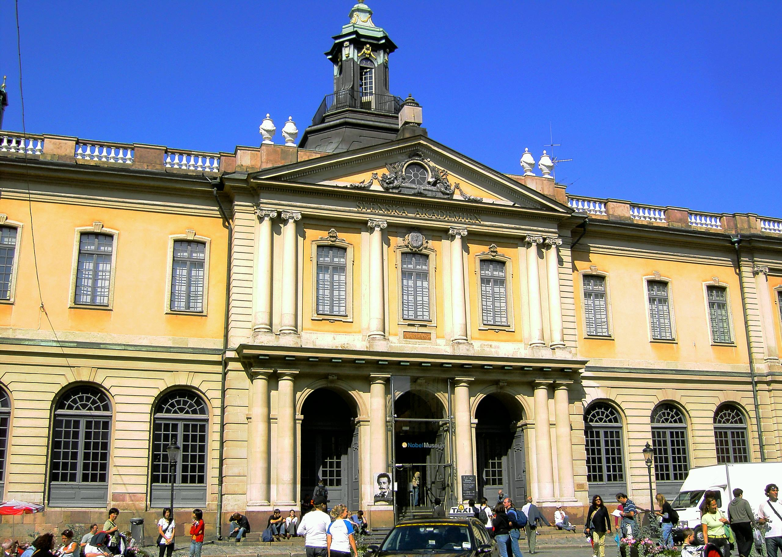 Stock Exchange Building, Stockholm, Sweden. Today (2006), the building hosts the Nobel Museum